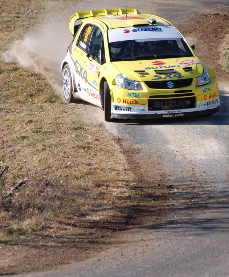 PG Andersson in Monte-Carlo Rally 2008